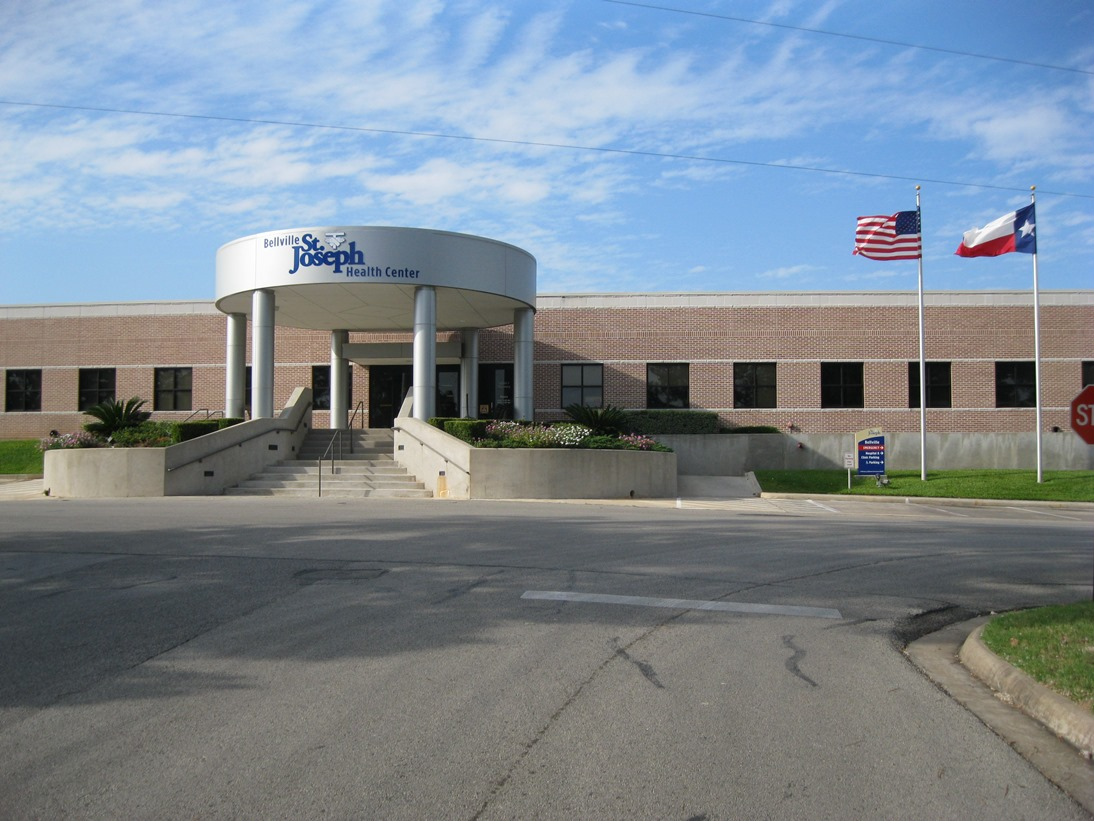 Photo shows Bellville St. Joseph Health Center at Palm and Cummings Streets in Bellville, Texas. View is to the northeast.